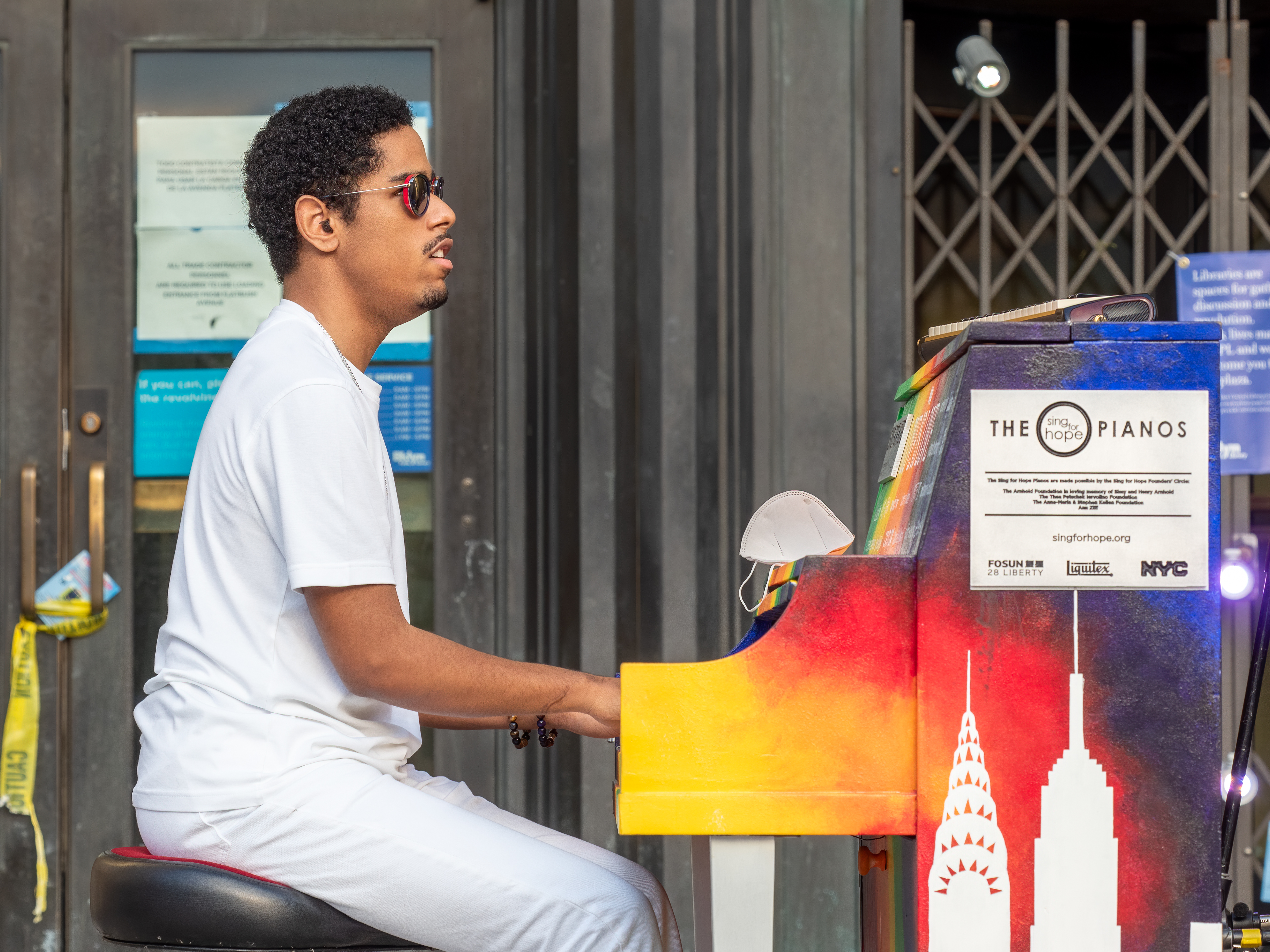 Musicians Jon Batiste and Matthew Whitaker playing piano and melodica for a "Juneteenth celebration + voter registration recital" called "We Are" on June 19, 2020. On the steps of the Brooklyn Public Library in Grand Army Plaza.